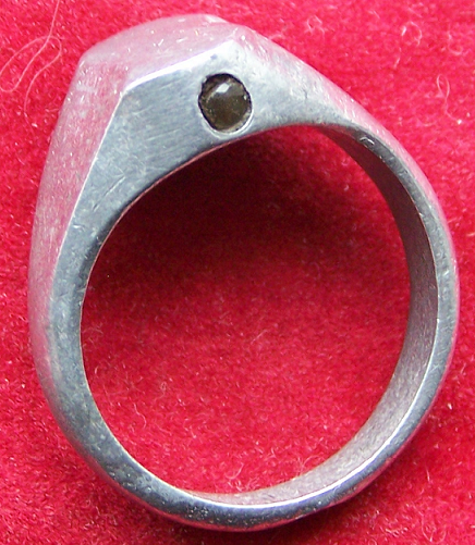 Filename